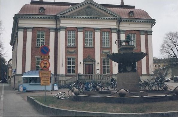 This photograph illustrates of the old city library main building after restauration in the year 2008.